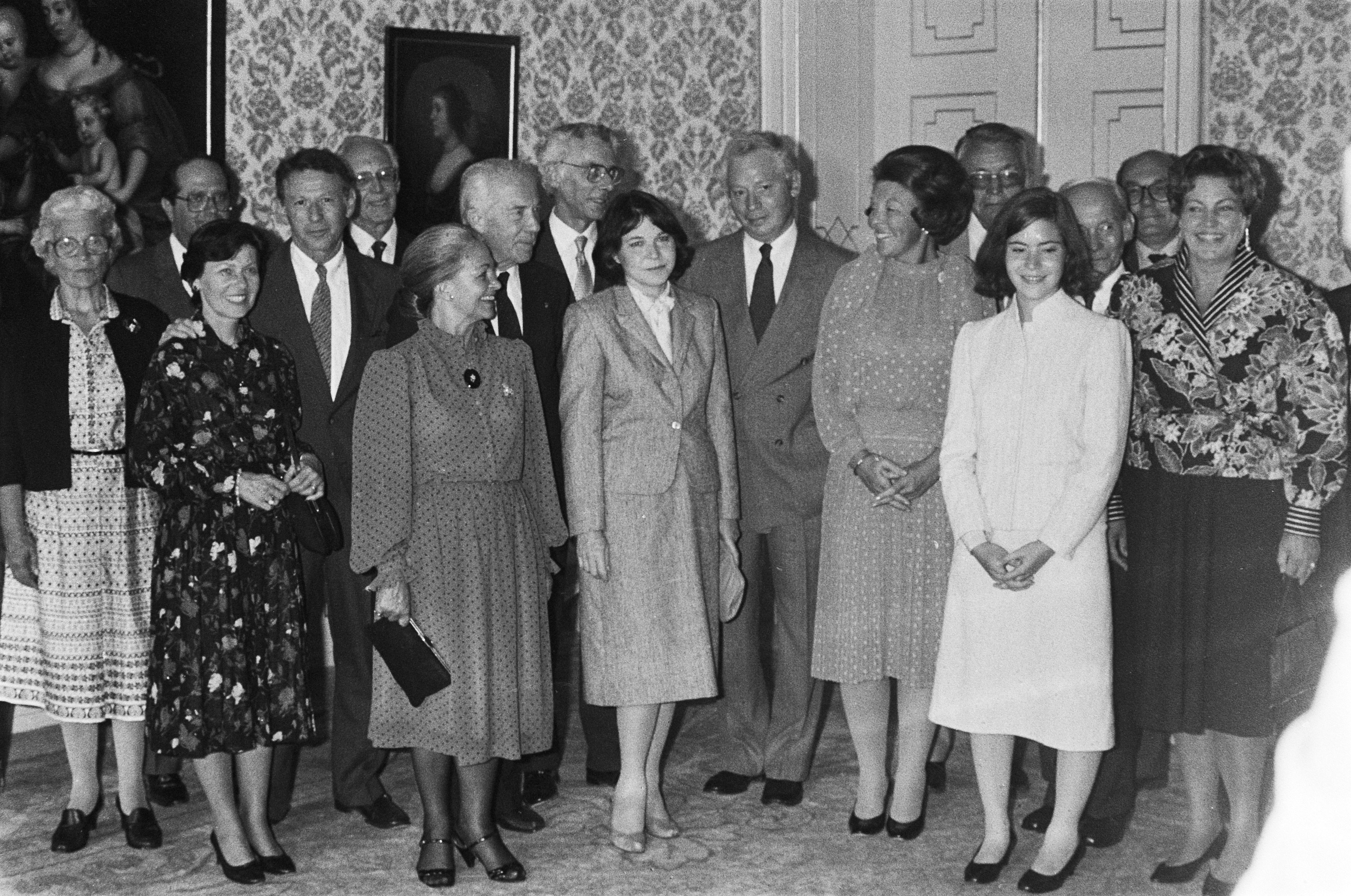 Queen Beatrix receives Nobel laureates: Woman, man, Mildred Levy, Paul Berg, Nicolaas Bloembergen, woman, Christian de Duve?, man, Louise Weinberg, Steven Weinberg, Queen Beatrix, man, woman, Manfed Eigen, man, woman